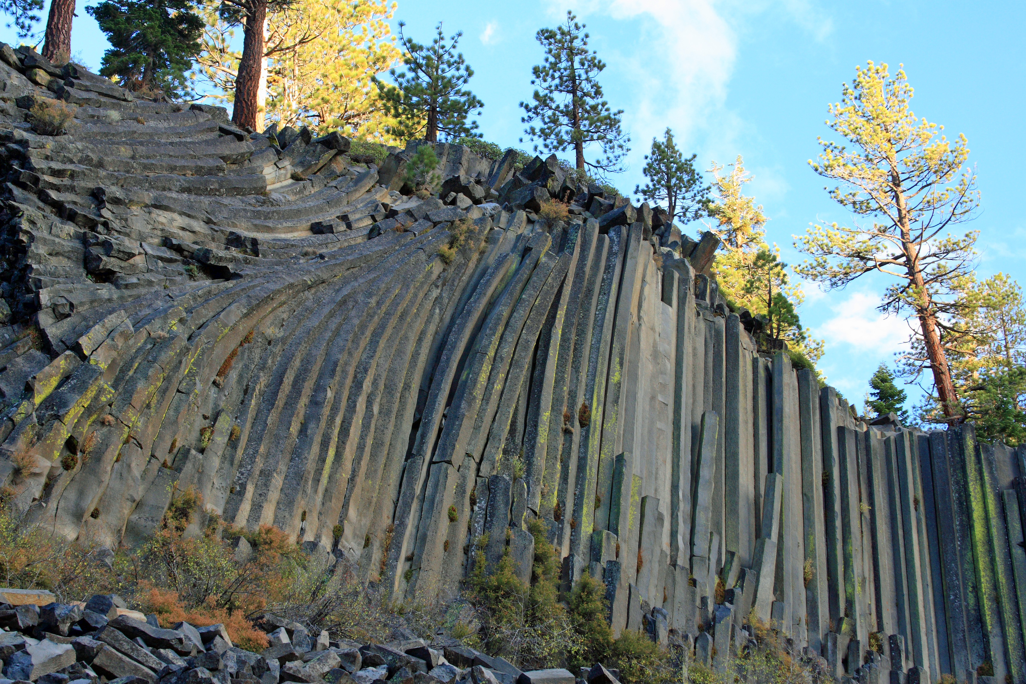 Devils Postpile National Monument, near Mammoth Lakes in the Eastern Sierra.